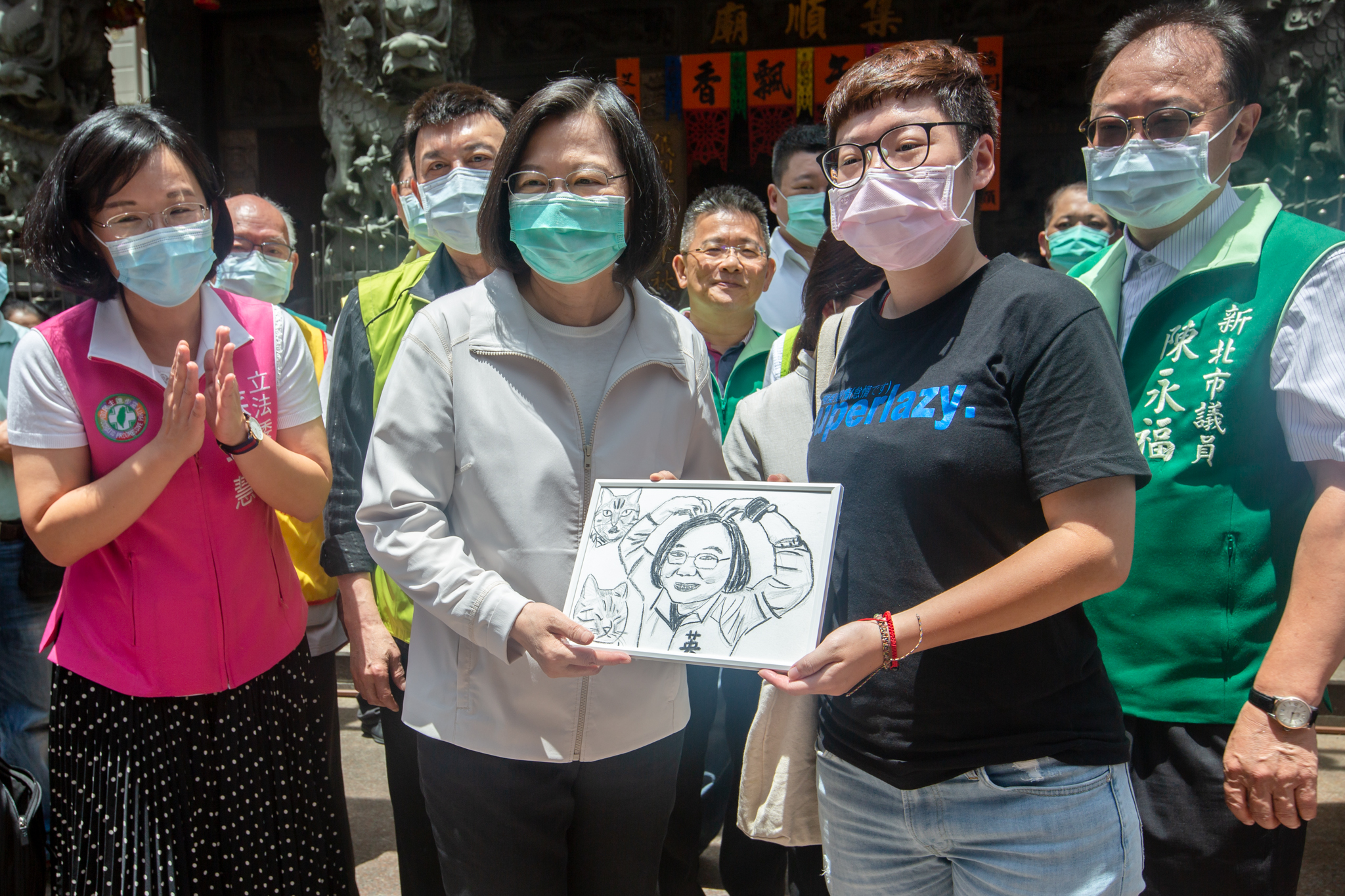 Official Photo by Wang Yu Ching / Office of the President